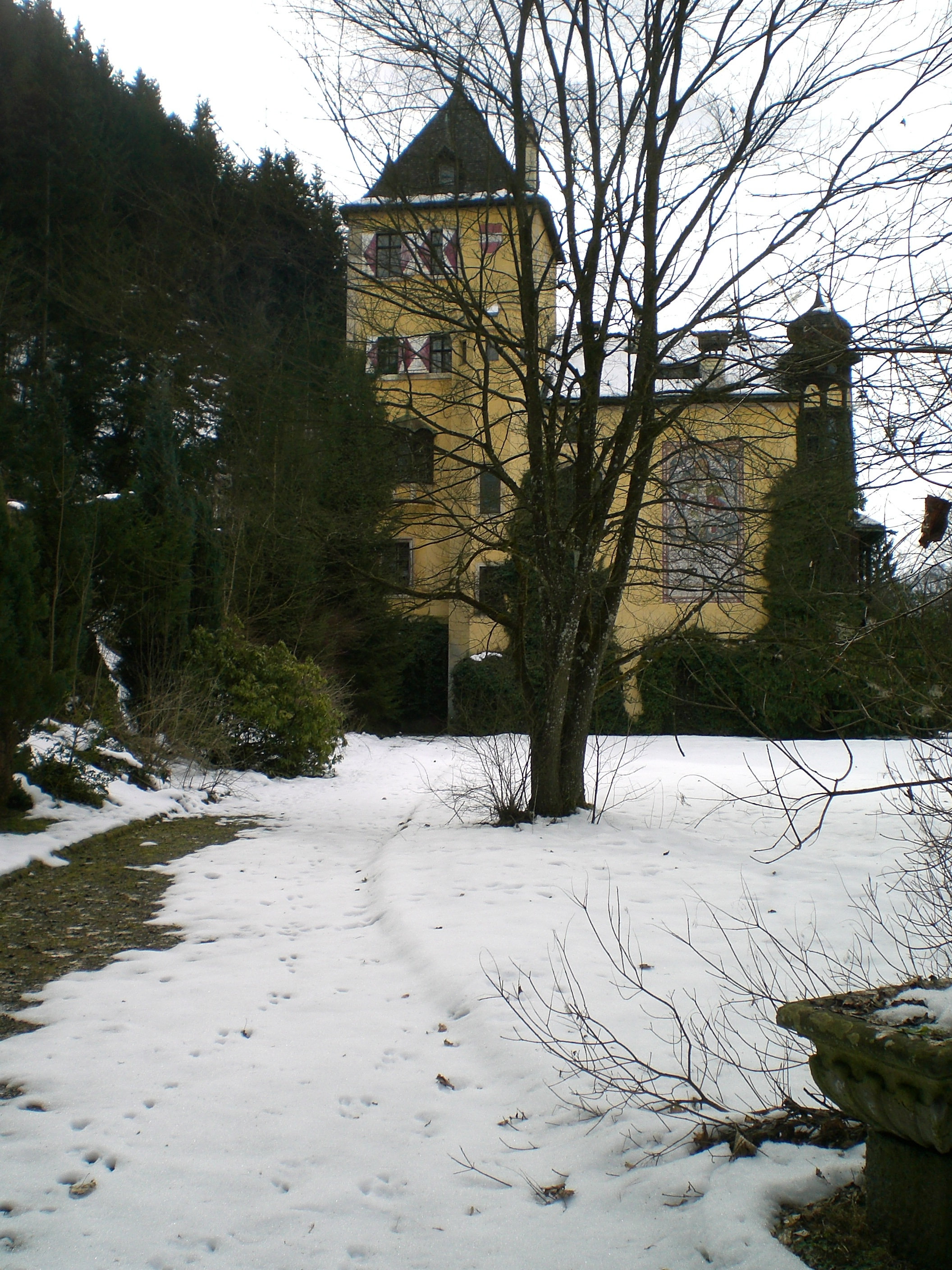 Schloss Neumatzen (Schlösschen Lipperheide, Neuschloss Matzen)